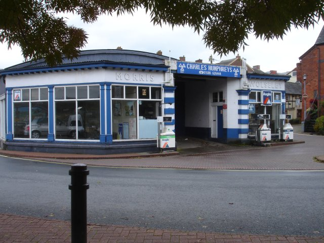 Charles Humphreys Garage On the corner of Severn Street and Gas Street with Parkers Lane just visible on the right.